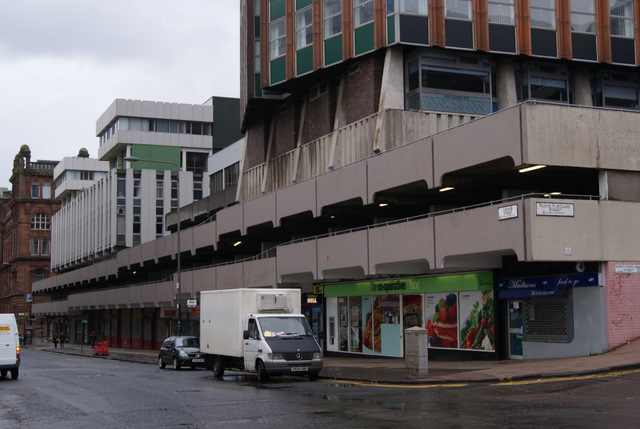 Concrete architecture on George Street A touch of Brutalism at the corner of North Portland Street.